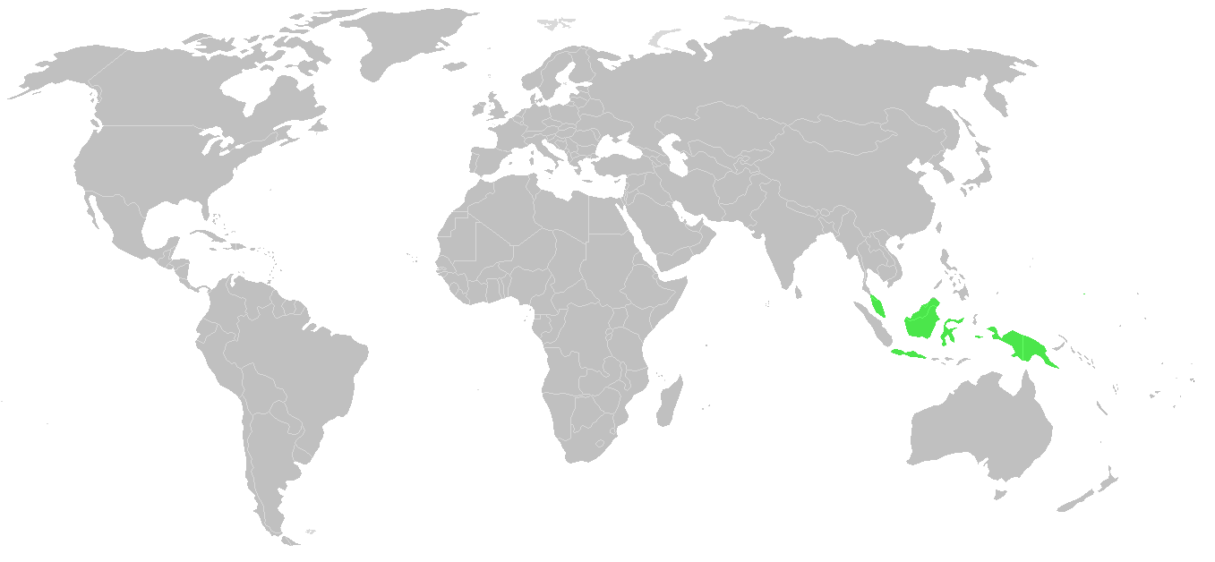 Known world distribution of jumping spider genus Thorelliola.